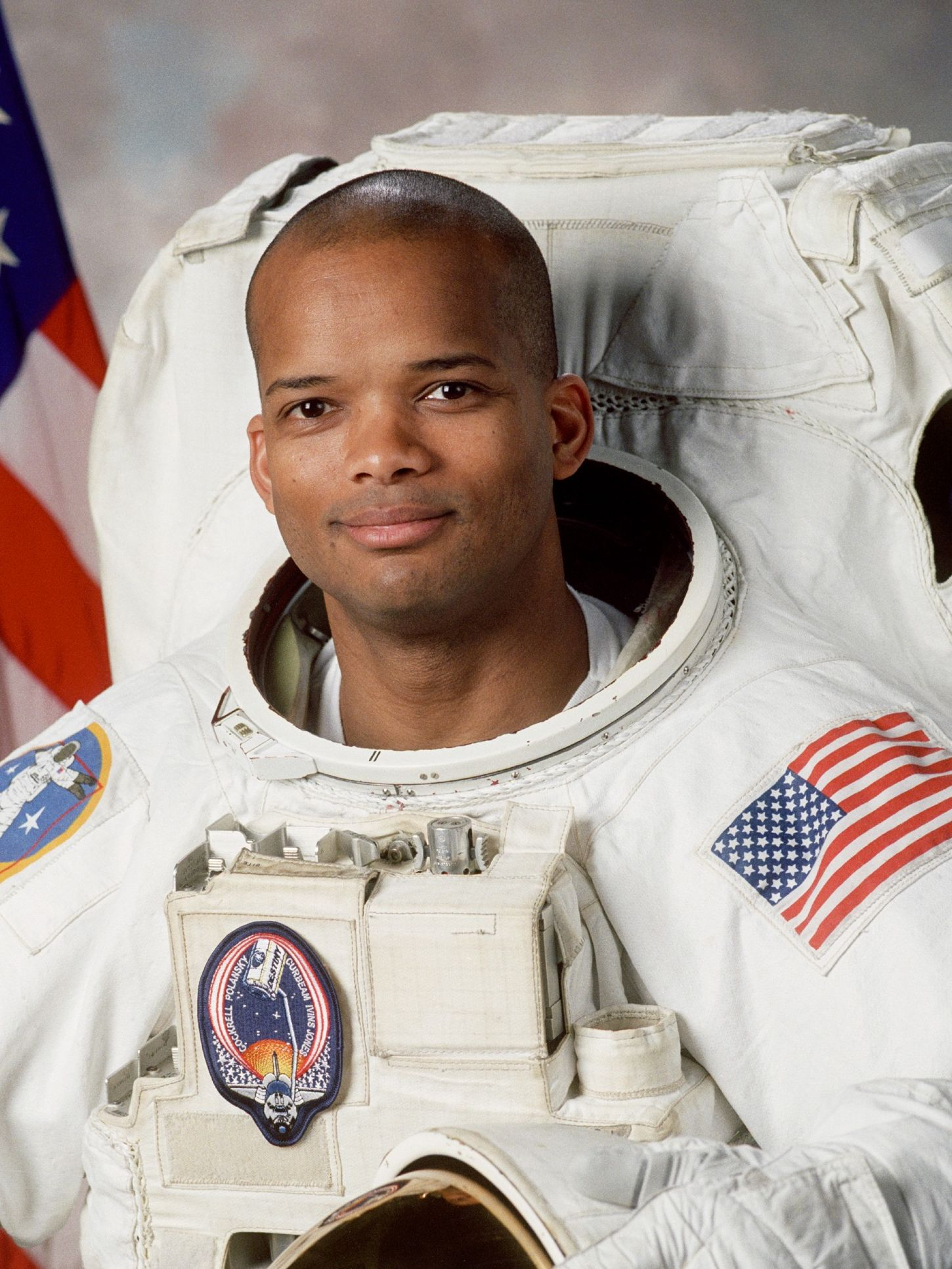 portrait astronaut Robert Curbeam